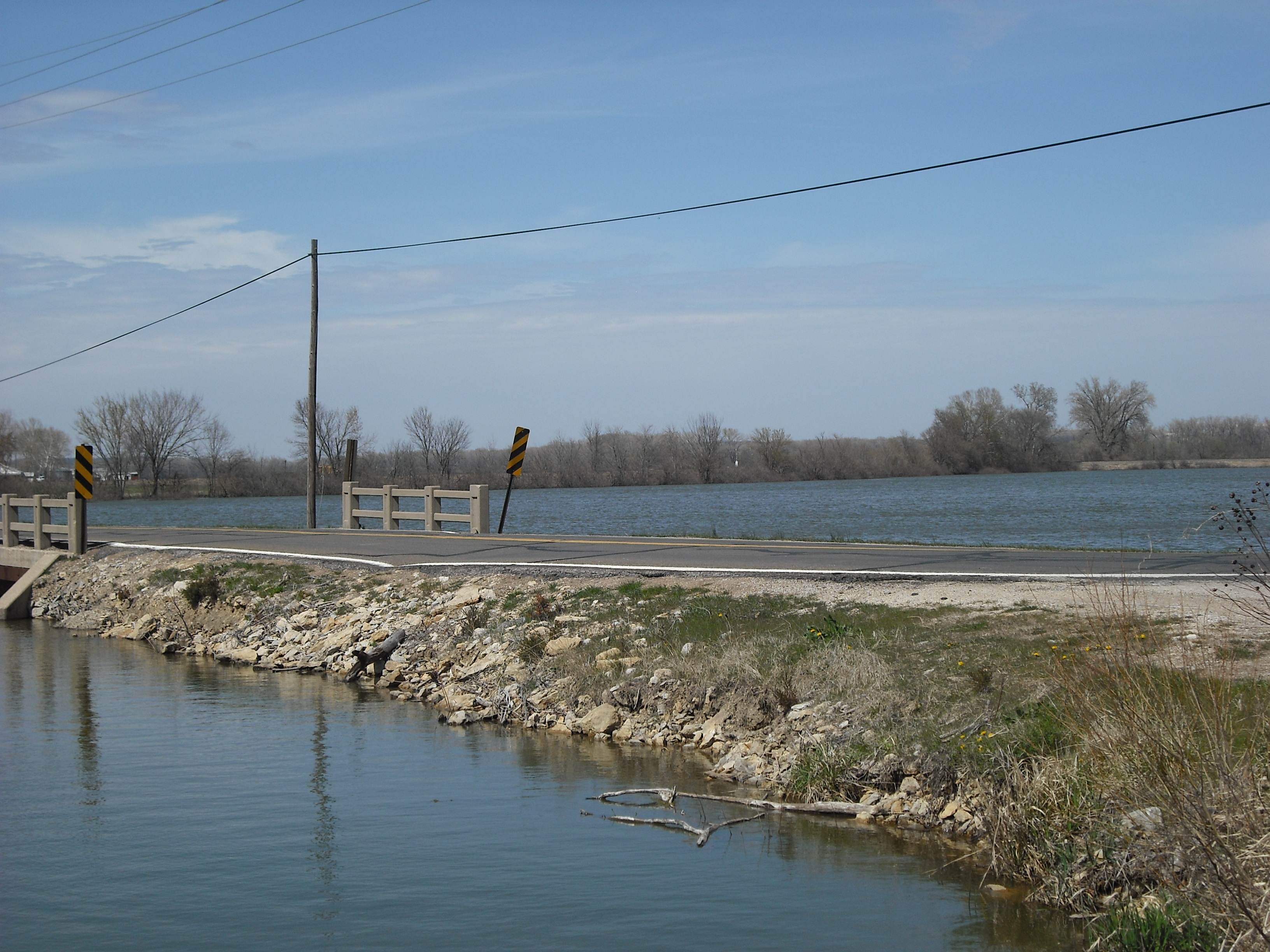 A picture of the road bed and Lakeview Lake north of Lawrence in Wakarusa Township.